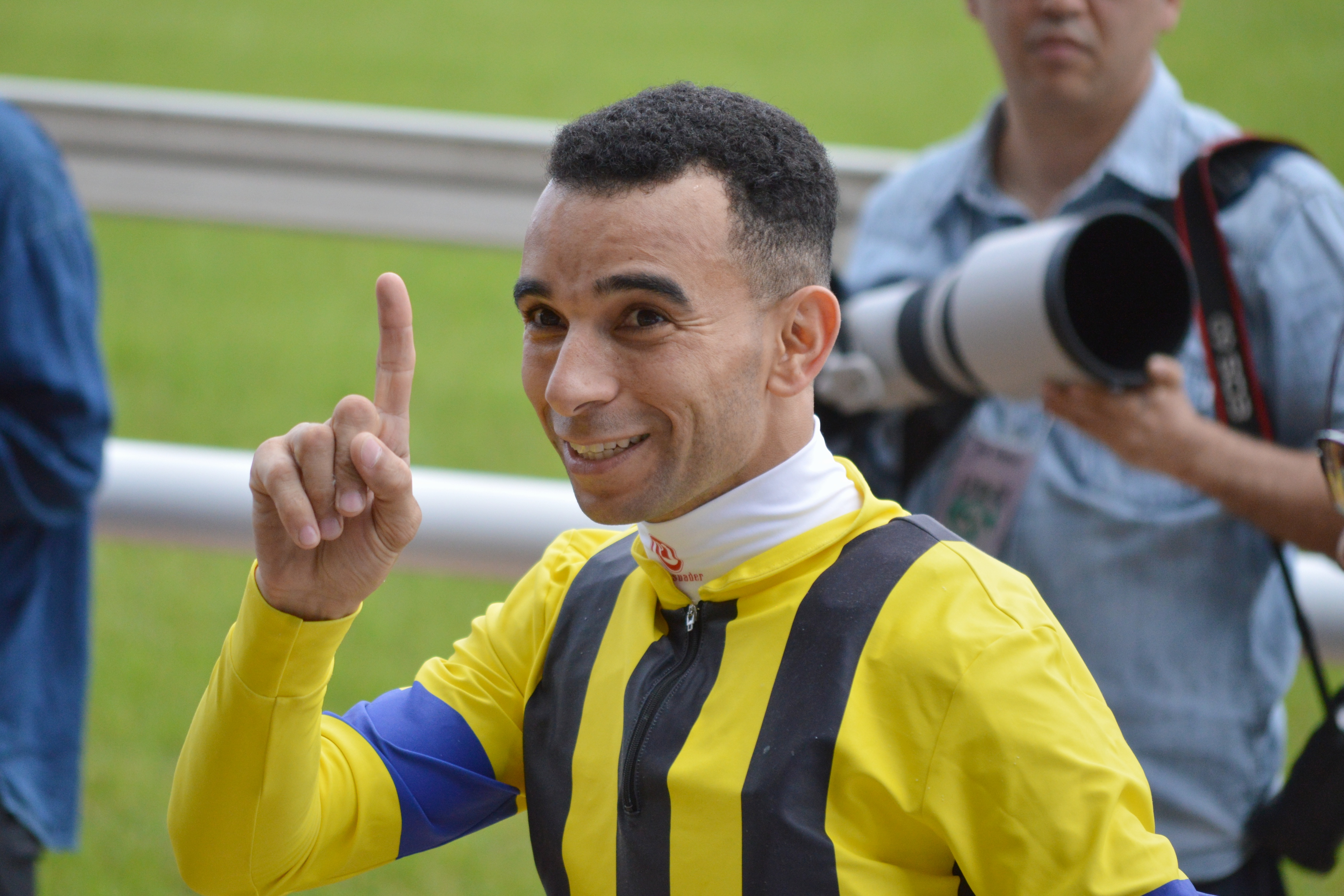 ジョアン・モレイラ騎手（2017年6月4日東京6レース平場戦口取り式にて）/ Joao Moreira Jockey receiving a commemorative photo at Tokyo Racecourse.